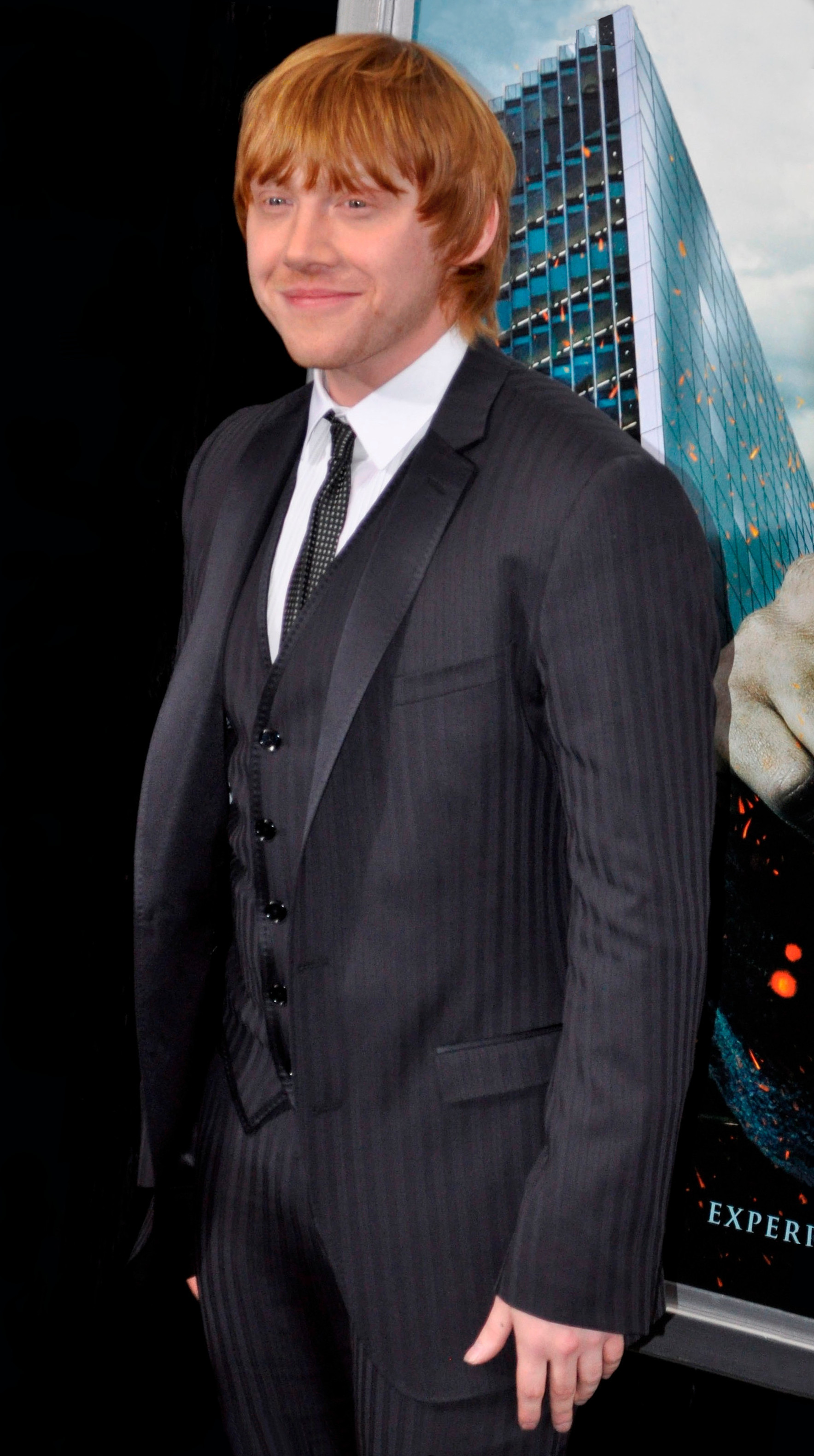 Rupert Grint at the film premiere of Harry Potter and The Deathly Hallows in Alice Tully Center, New York City in November 2010.